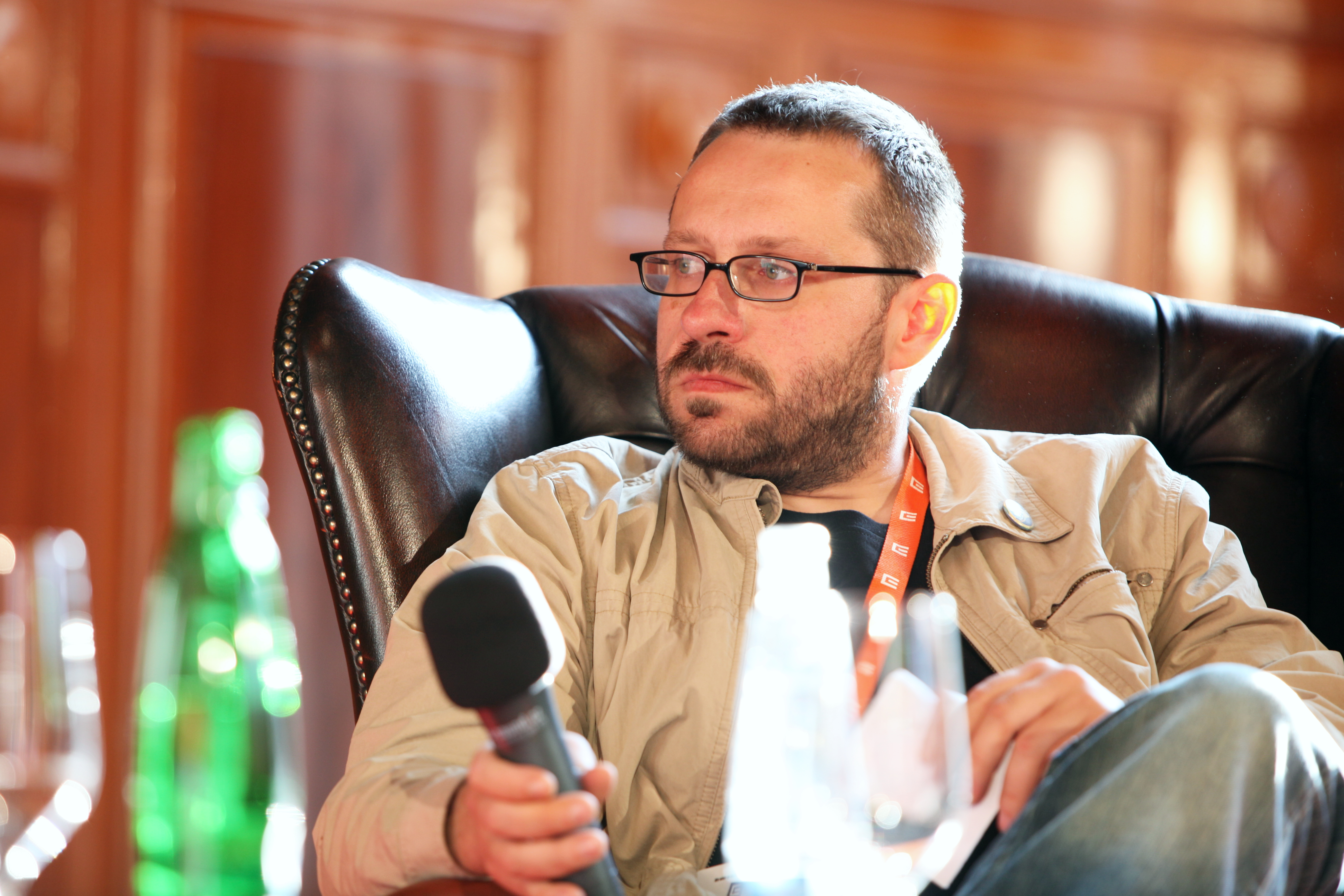 Czech film critic Tomáš Baldýnský interviews John Malkovich (unseen) at 44th Karlovy Vary International Film Festival